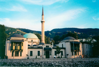 Taken by user Asim Led